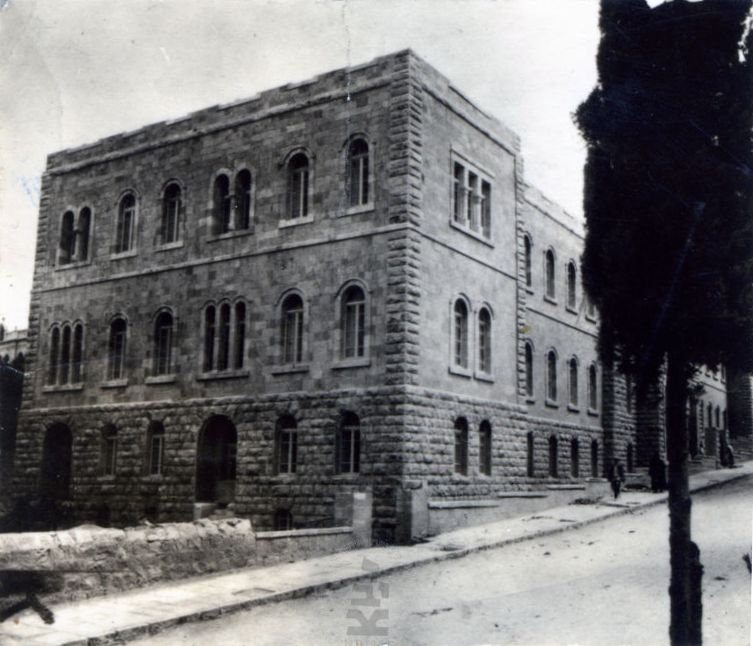 Bikur Cholim Hospital, Jerusalem. Original caption: “A big building inYaffo street, Jerusalem.” — Yad Ben Zvi archive Note: This description has been identified as biased or incorrect: Not building in Yaffo street. Original caption: “בניין גדול, רחוב יפו, ירושלים.” — ארכיון יד יצחק בן-צבי Note: This description has been identified as biased or incorrect: לא ברחוב יפו.